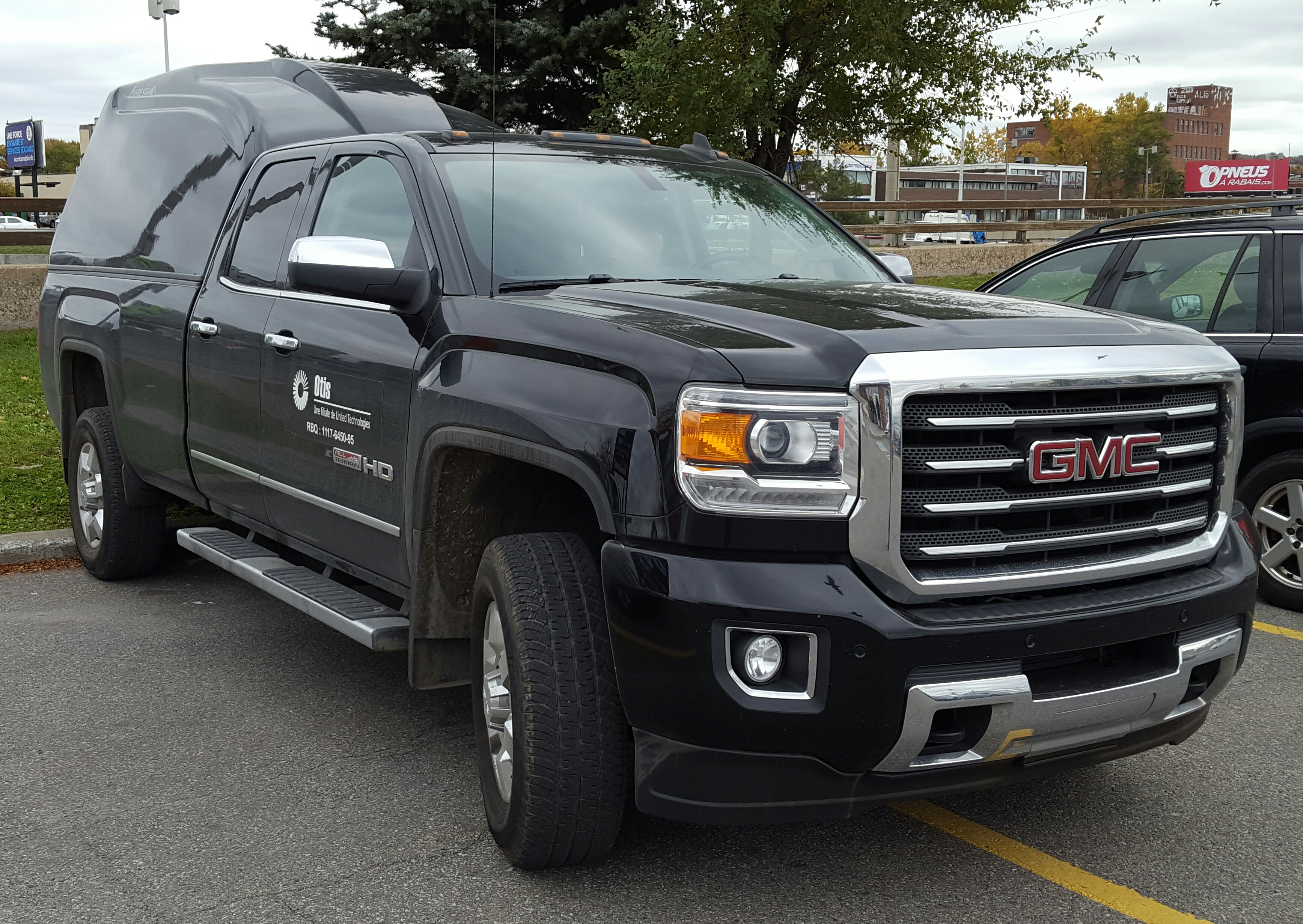 2014-present GMC Sierra All-Terrain HD Otis Escalator photographed in Montreal, Quebec, Canada.